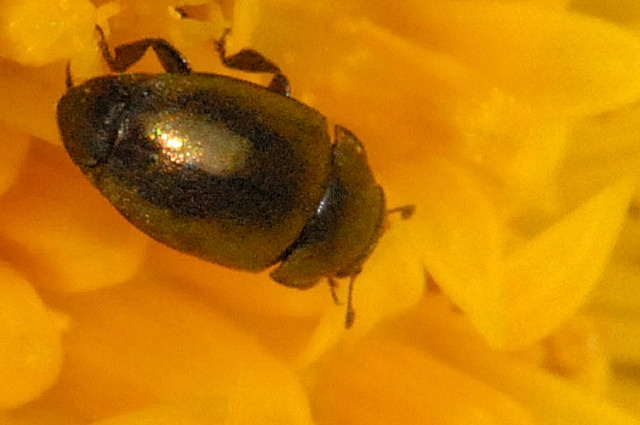 Brassicogethes aeneus (syn.: Meligethes aeneus) from Commanster, Belgian High Ardennes .